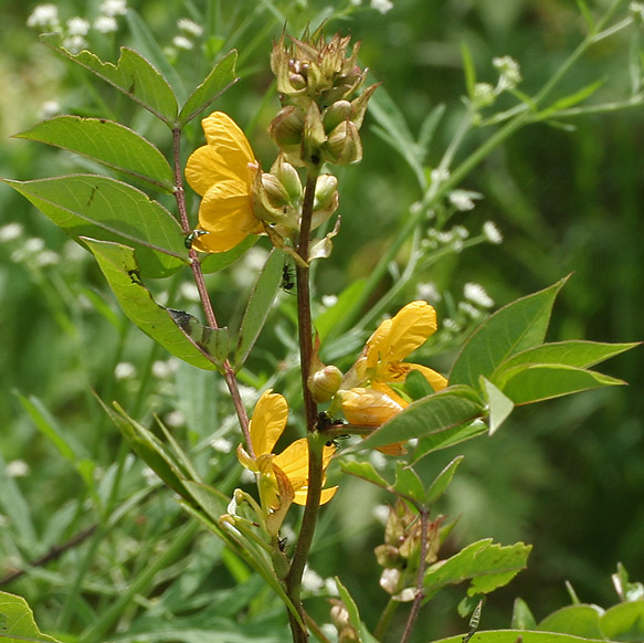 Cassia occidentalis at Ananthagiri Hills, in Rangareddy district of Andhra Pradesh, India.